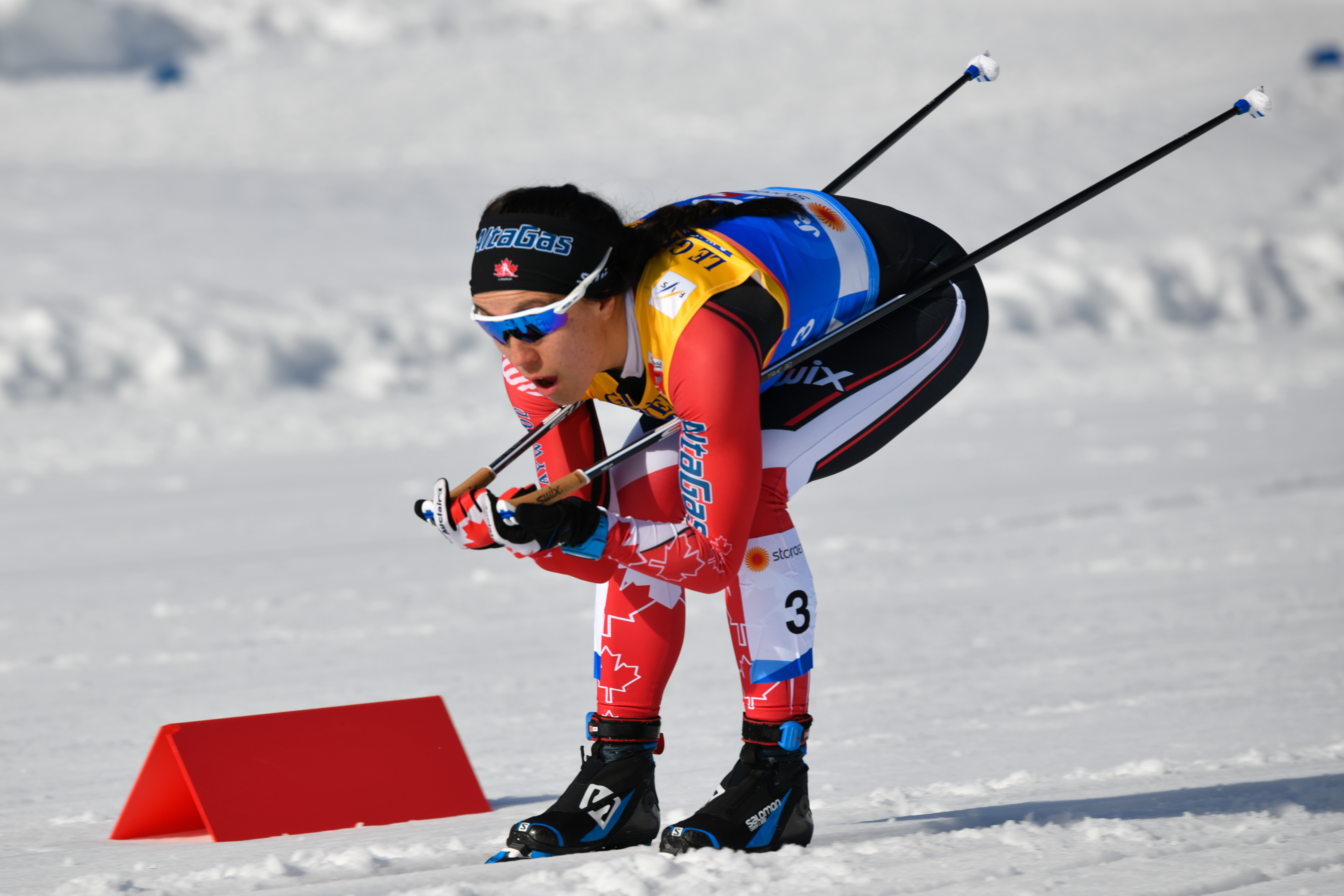 FIS Nordic World Ski Championships Seefeld 2019 - Ladies Cross Country 10km. Picture shows Emily Nishikawa (CAN).